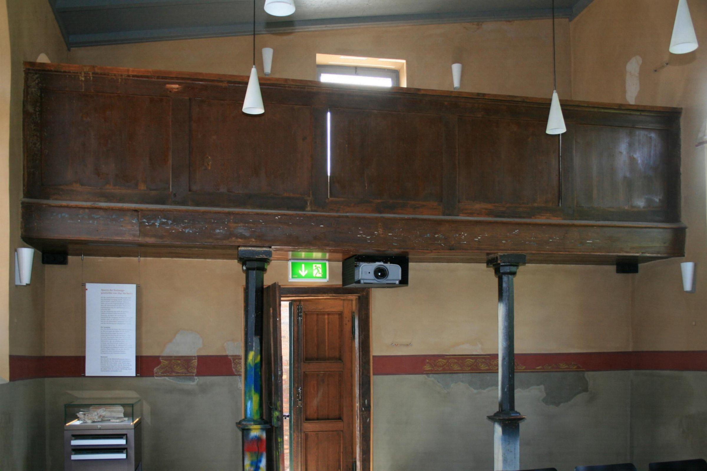 Cultural heritage monument No. 90 in Titz